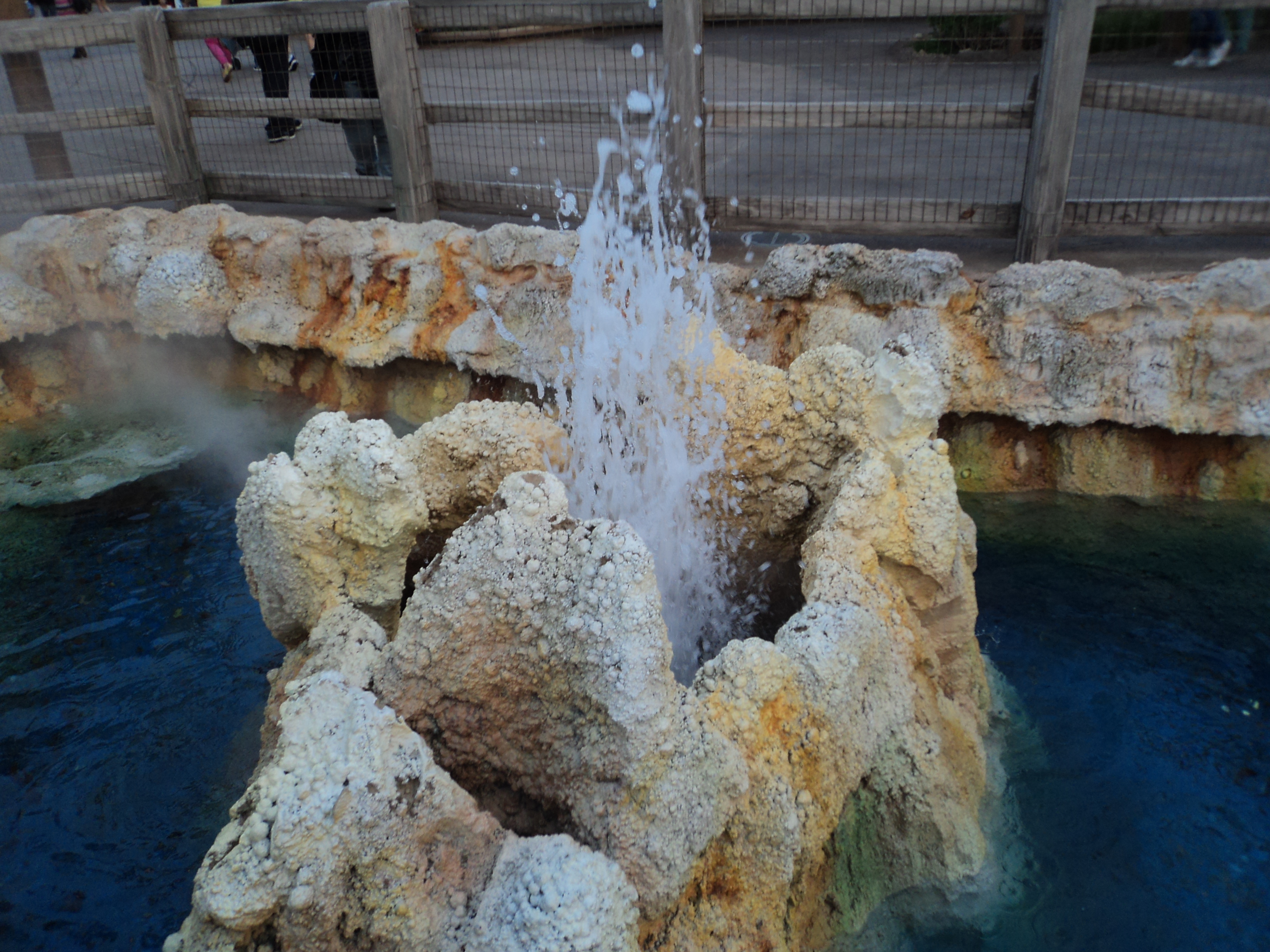 Geyser Gulch play area in Grizzly Gulch, Hong Kong Disneyland. 中文（香港）: 灰熊山谷的噴泉山谷區域。